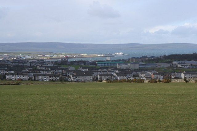 Papdale valley, east of Kirkwall, Orkney. Public housing and schools in valley, permanent grazing fields in foreground.